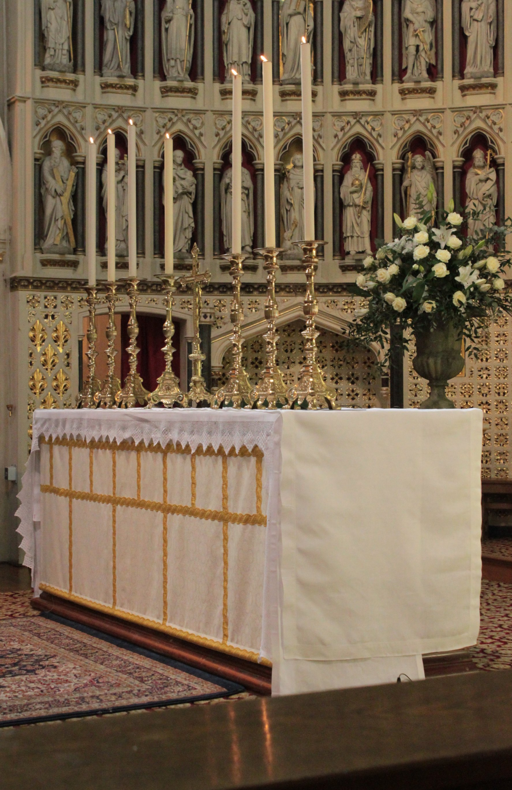 The High Altar of the Oxford Oratory prepared for the Pontifical Solemn Mass on Easter III